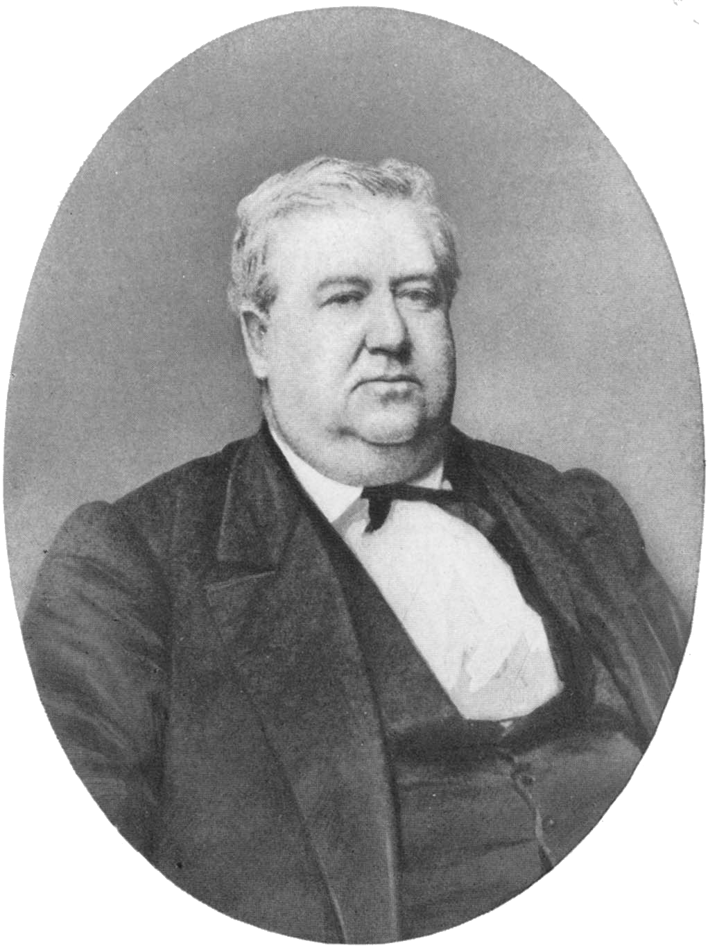 Black and white torso portrait photograph of Senator Preston King in an oval frame.